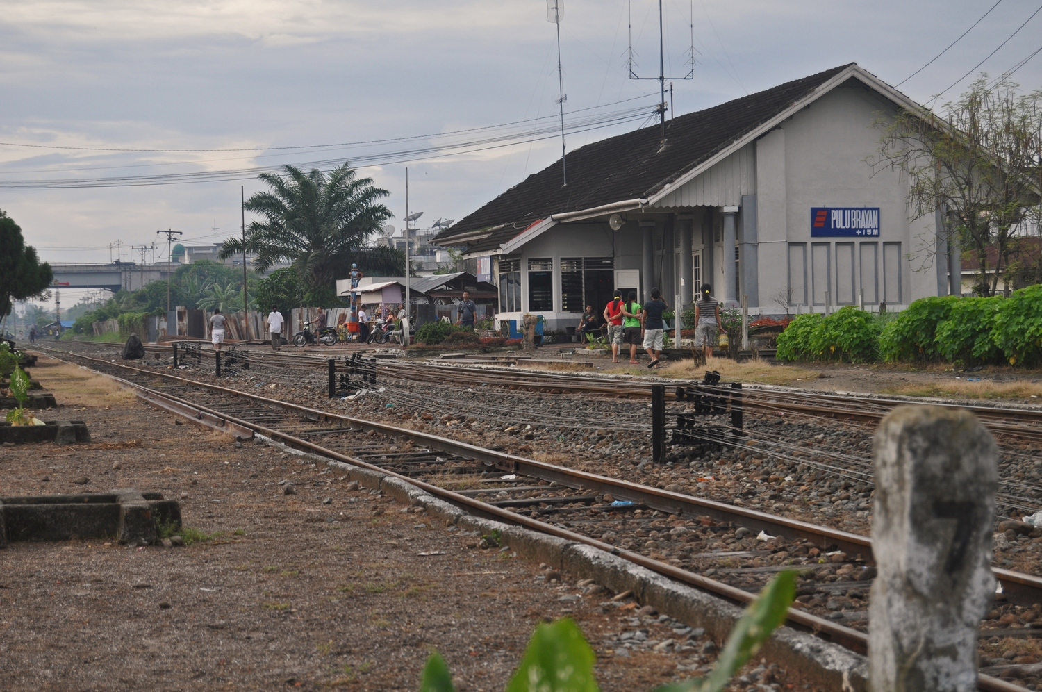 Pulu Brayan (PUB) train station in Medan, North Sumatra.